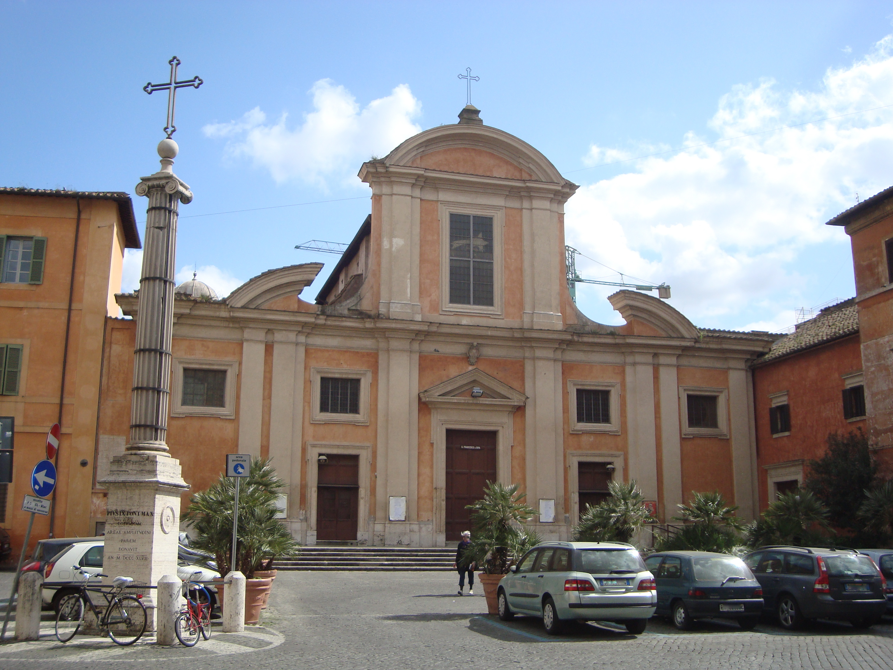 View of the church San Francesco a Ripa in Trastevere, Rome